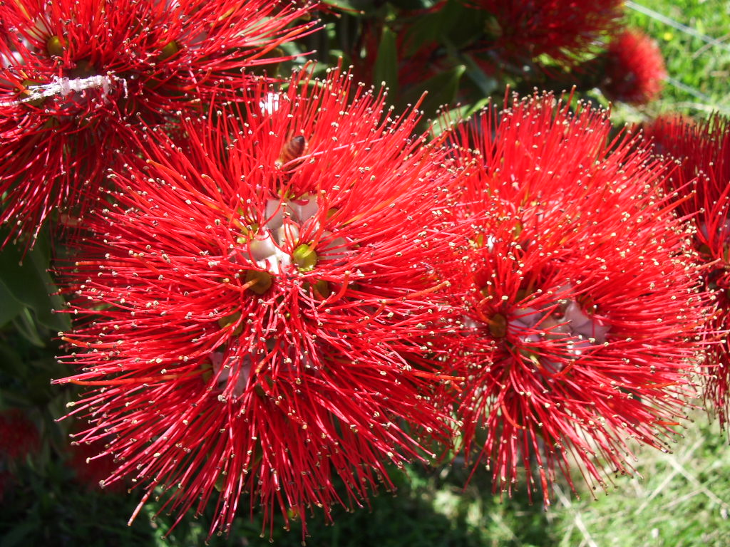 Flower buds of the Pōhutukawa tree (Metrosideros excelsa), also called New Zealand Christmas TreePōhutukawa in Waikanae, Wellington District, Northern Island, New Zealand